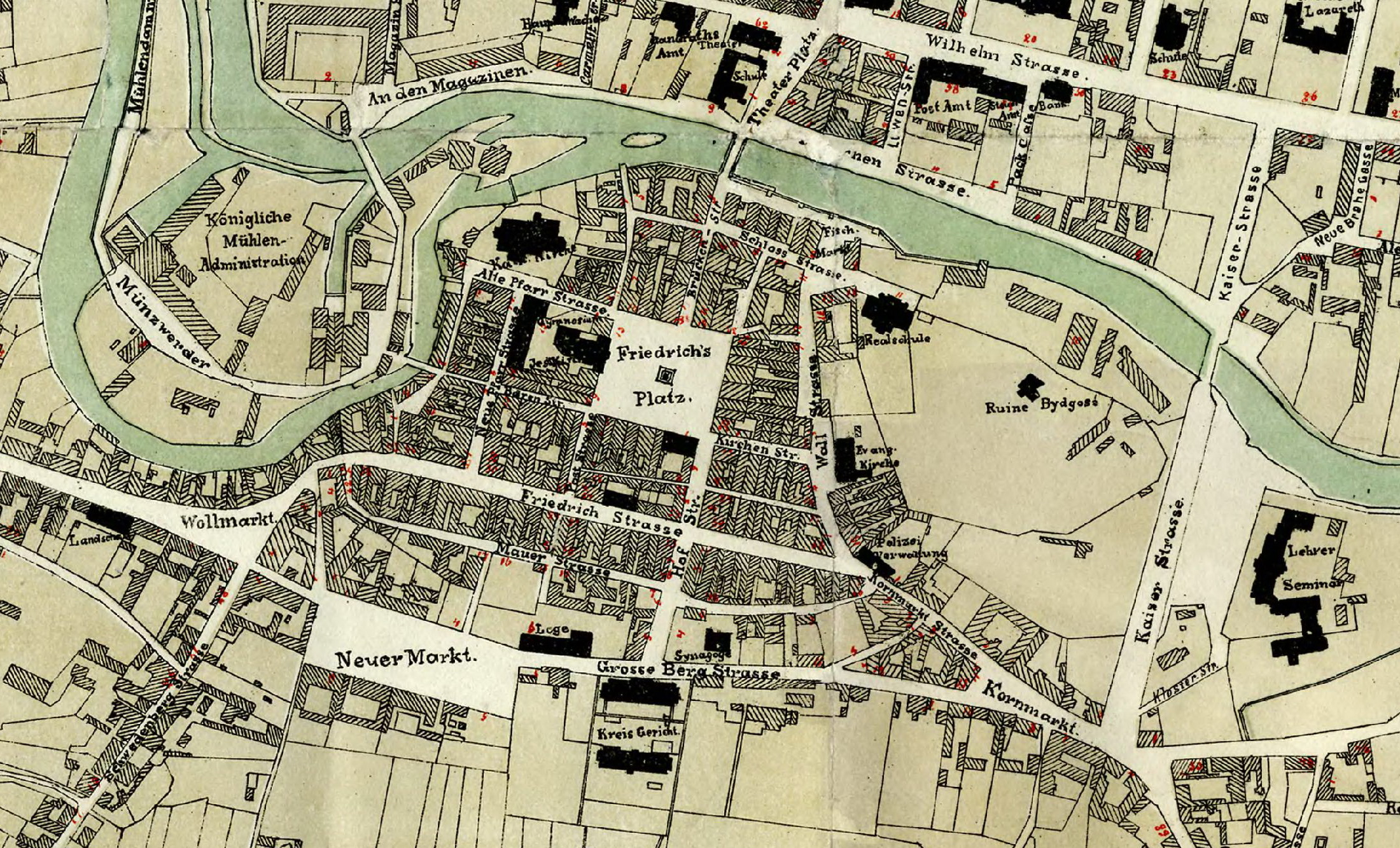 Old town Bydgoszcz zoom 1876